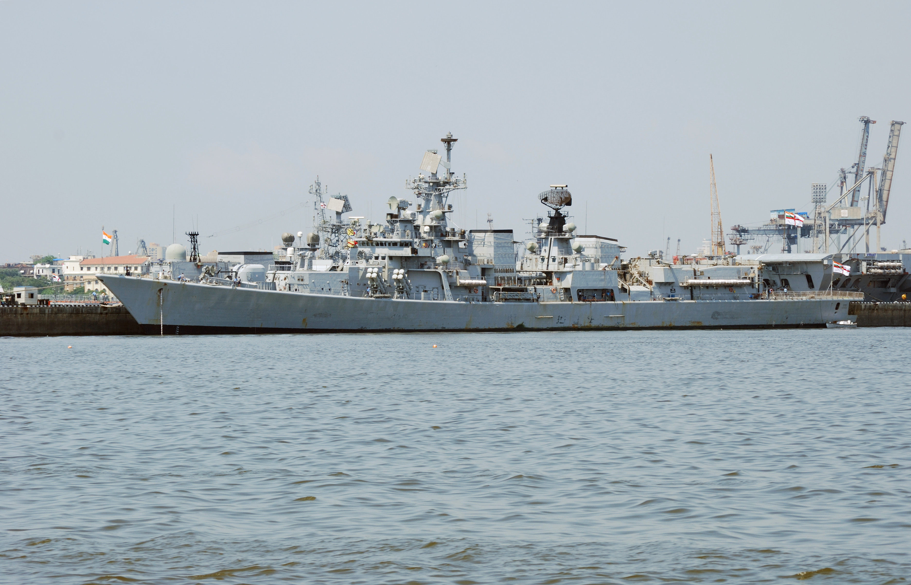 INS Mumbai, a Delhi-class destroyer, at Apollo Bandar in Mumbai.